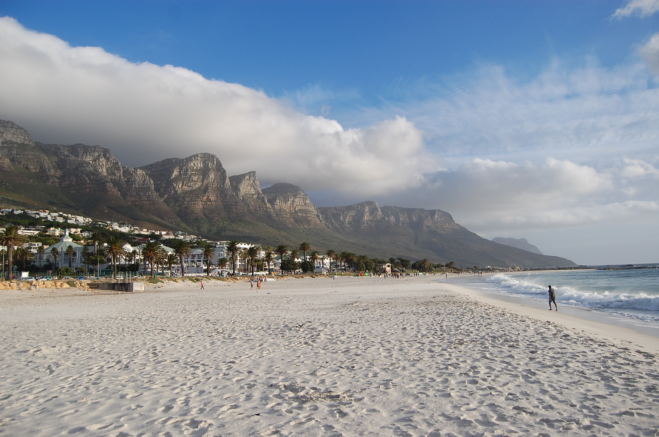 Camps Bay Beach ..., Cape Town